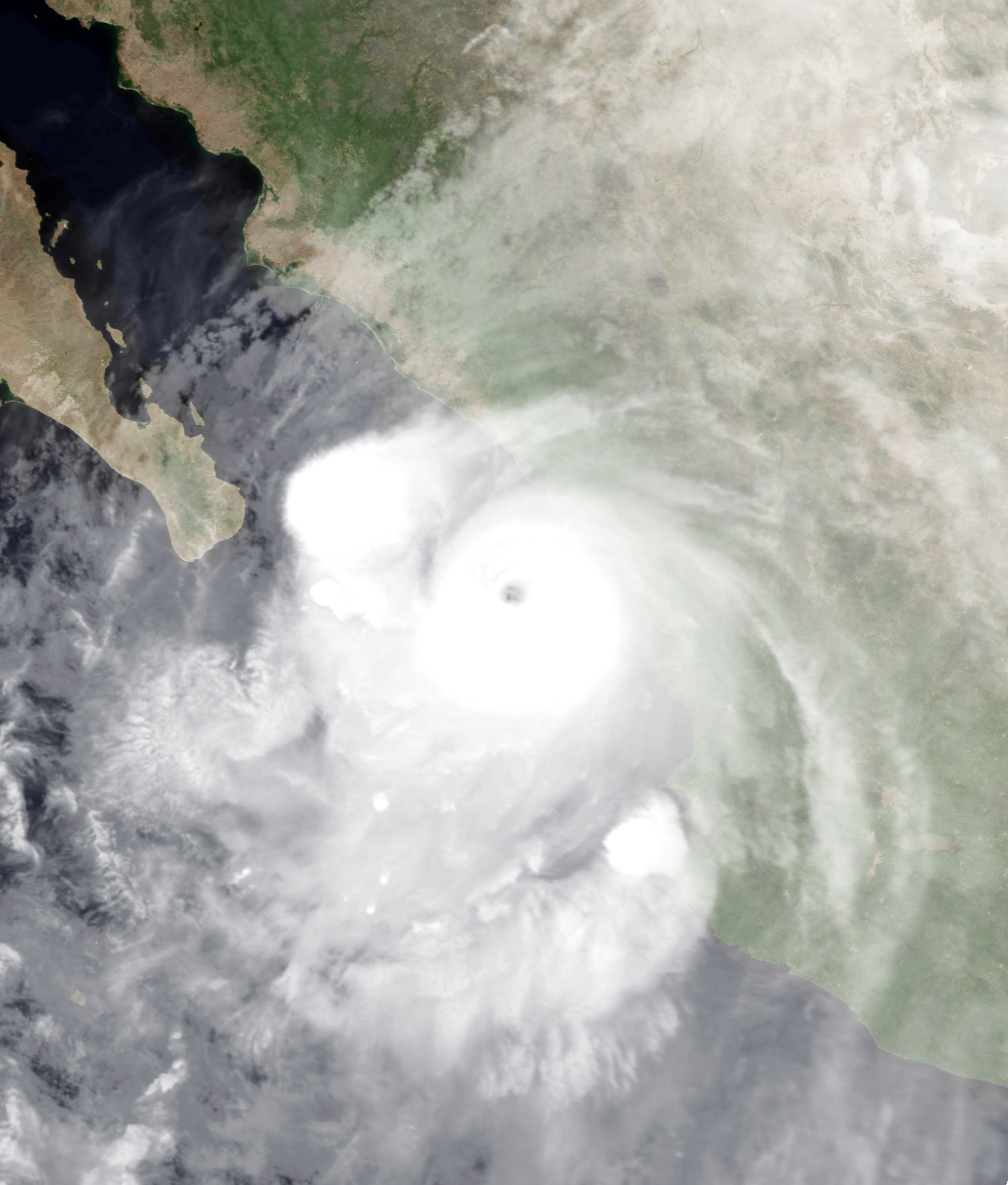 Hurricane Lane near peak intensity as a category 3 storm